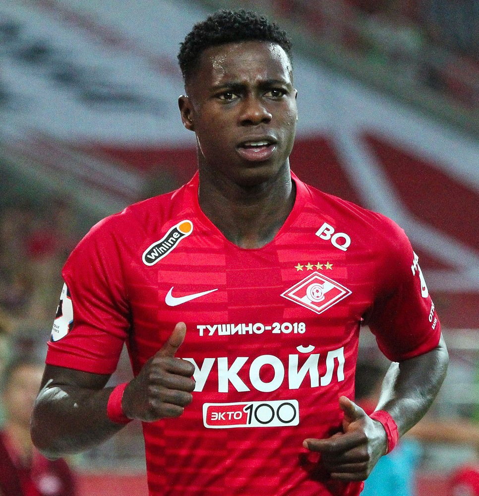 Quincy Promes